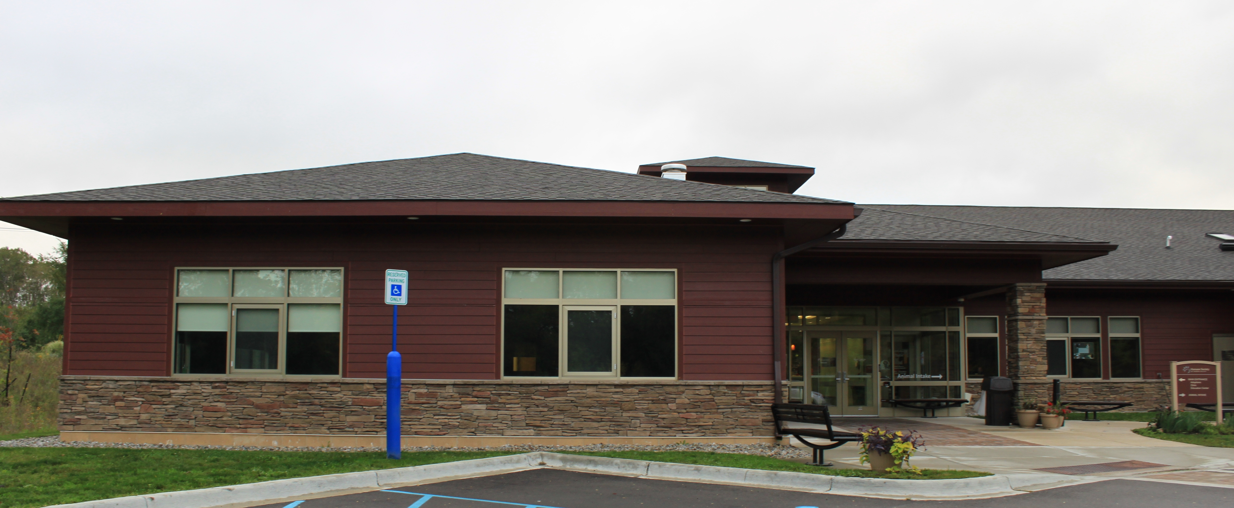 Humane Society of Huron Valley, 3100 Cherry Hill Road, Superior Township (Ann Arbor), Michigan